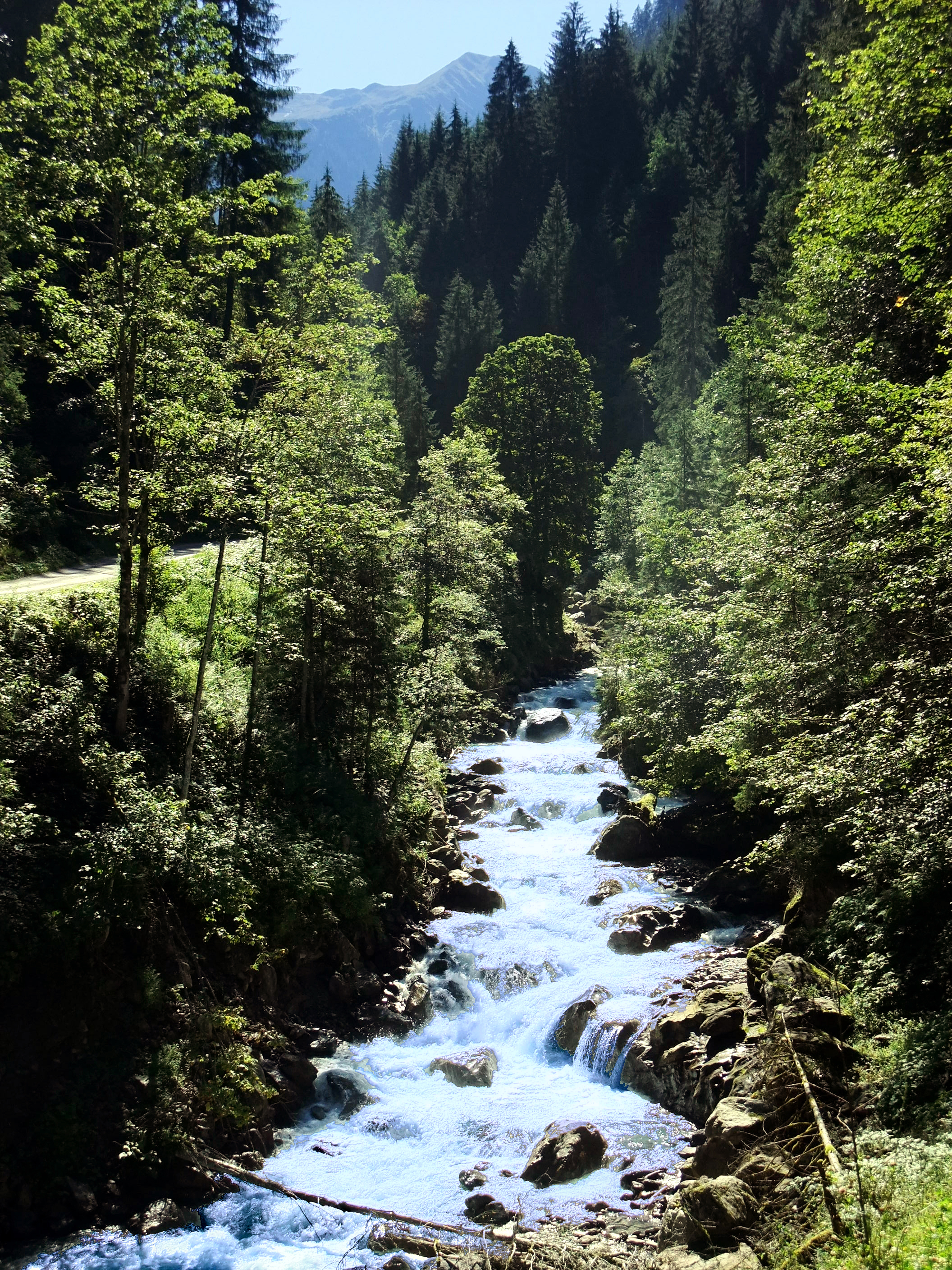 The Litz River is a right tributary of the Ill River in the federal state Vorarlberg of Austria. View to the river in its lower reaches near Silbertal.